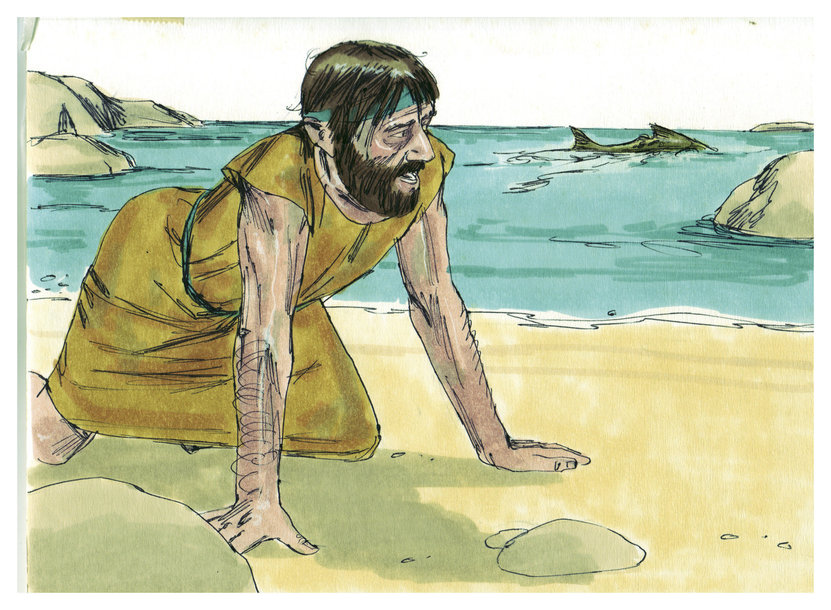 Biblical illustration of Book of Jonah Chapter 1